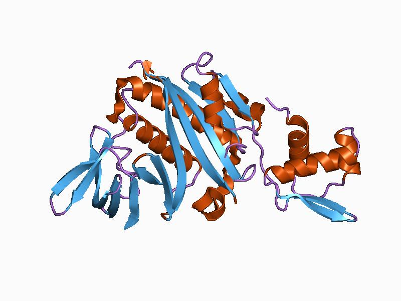 Cartoon representation of the molecular structure of protein registered with 1bia code.